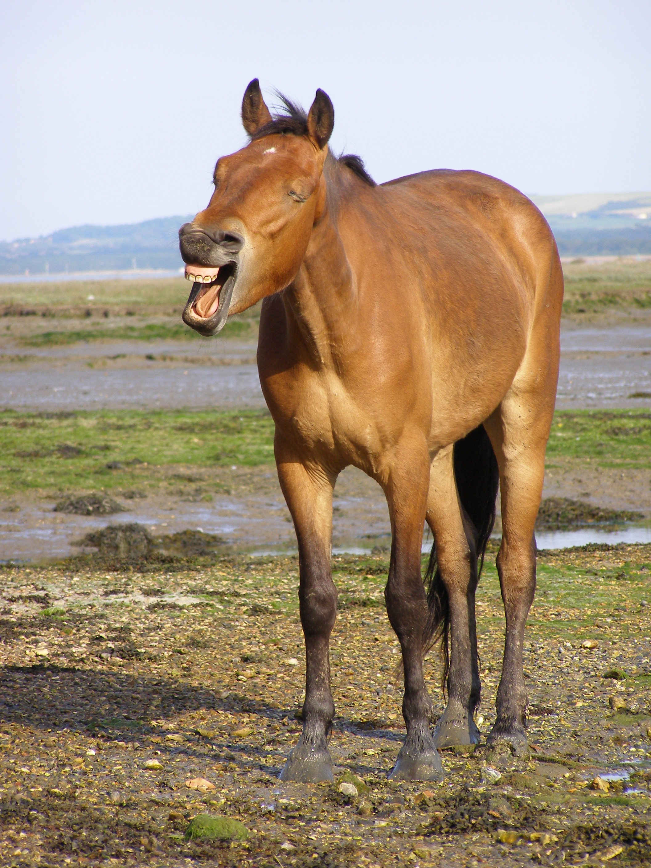 A lame pony on the Solent shore at Tanners Lane.Yawning